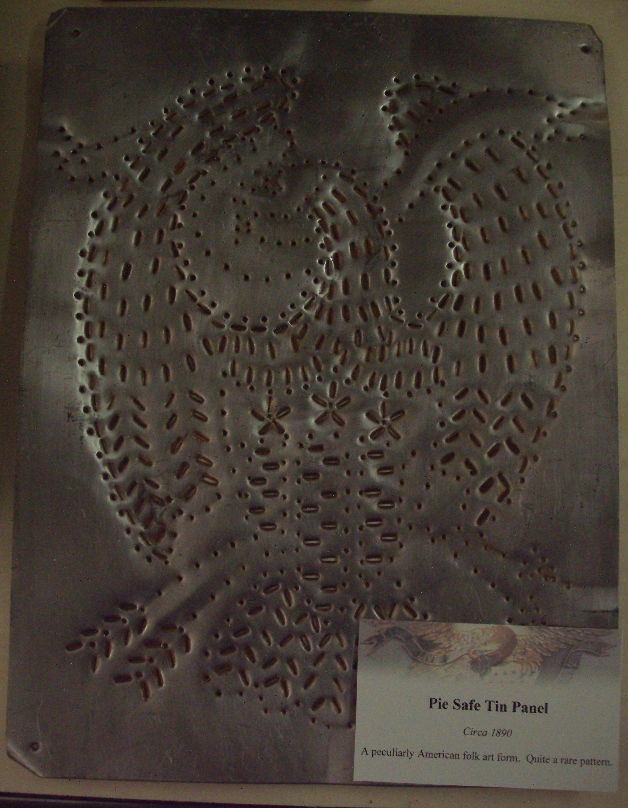 One of a series of my pictures taken of the temporary American Eagle Exhibit at Taylor University of works published before 1923